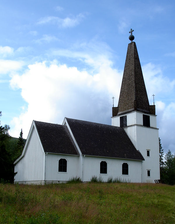 Viktoriakyrkan by lake Överstjuktan.